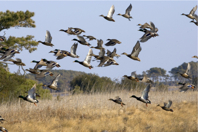 Chincoteague National Wildlife Refuge, VA Photo: Steve Hillebrand, USFWS